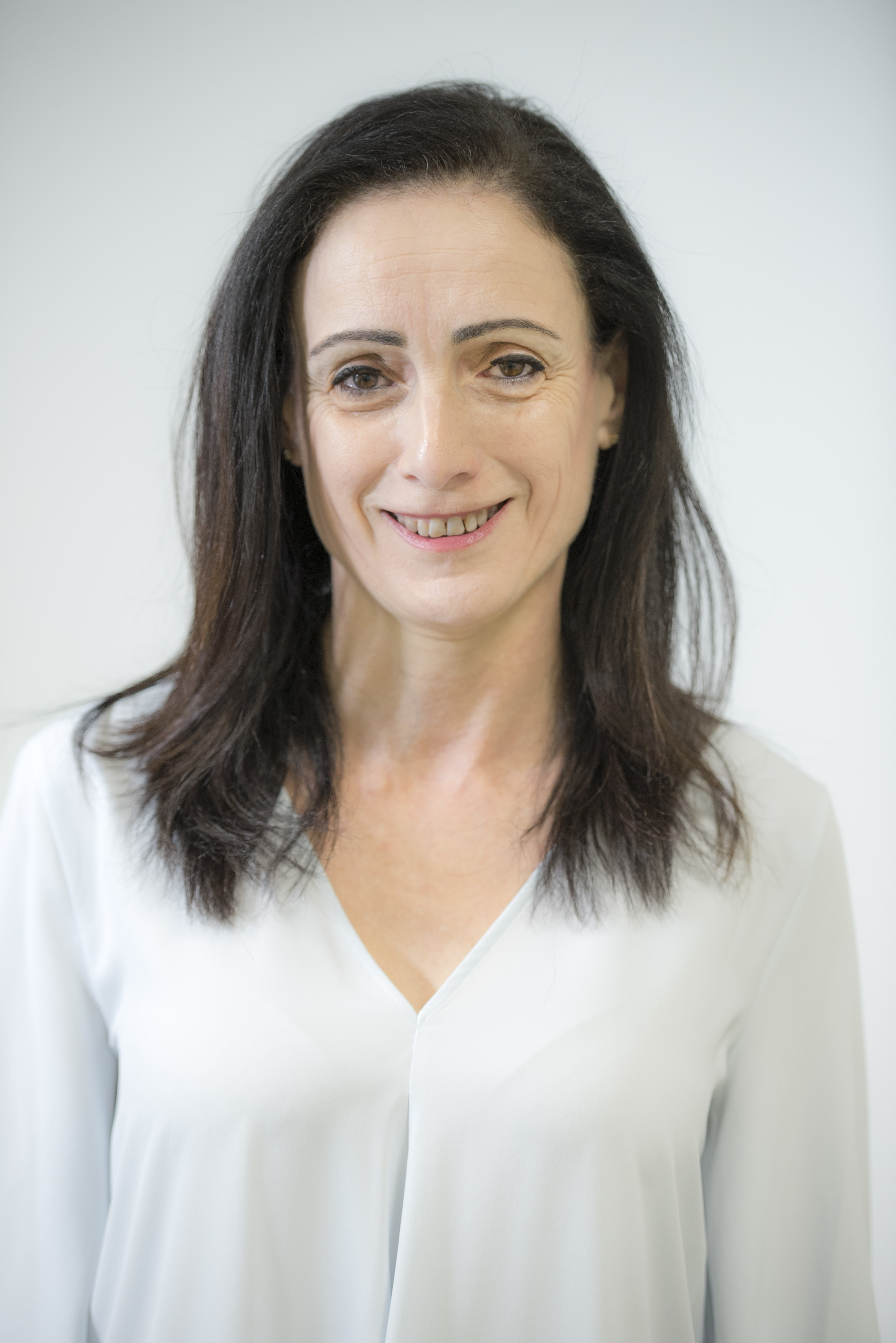 Reem Younis, co-founder of Alpha Omega Engineering